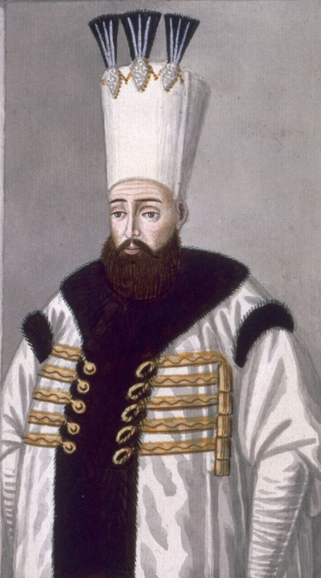 Portrait of Ahmed III, Sultan of the Ottoman Empire (1703-1730). The portrait has been printed using the Giclée process.